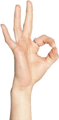 A picture of the a-ok gesture.